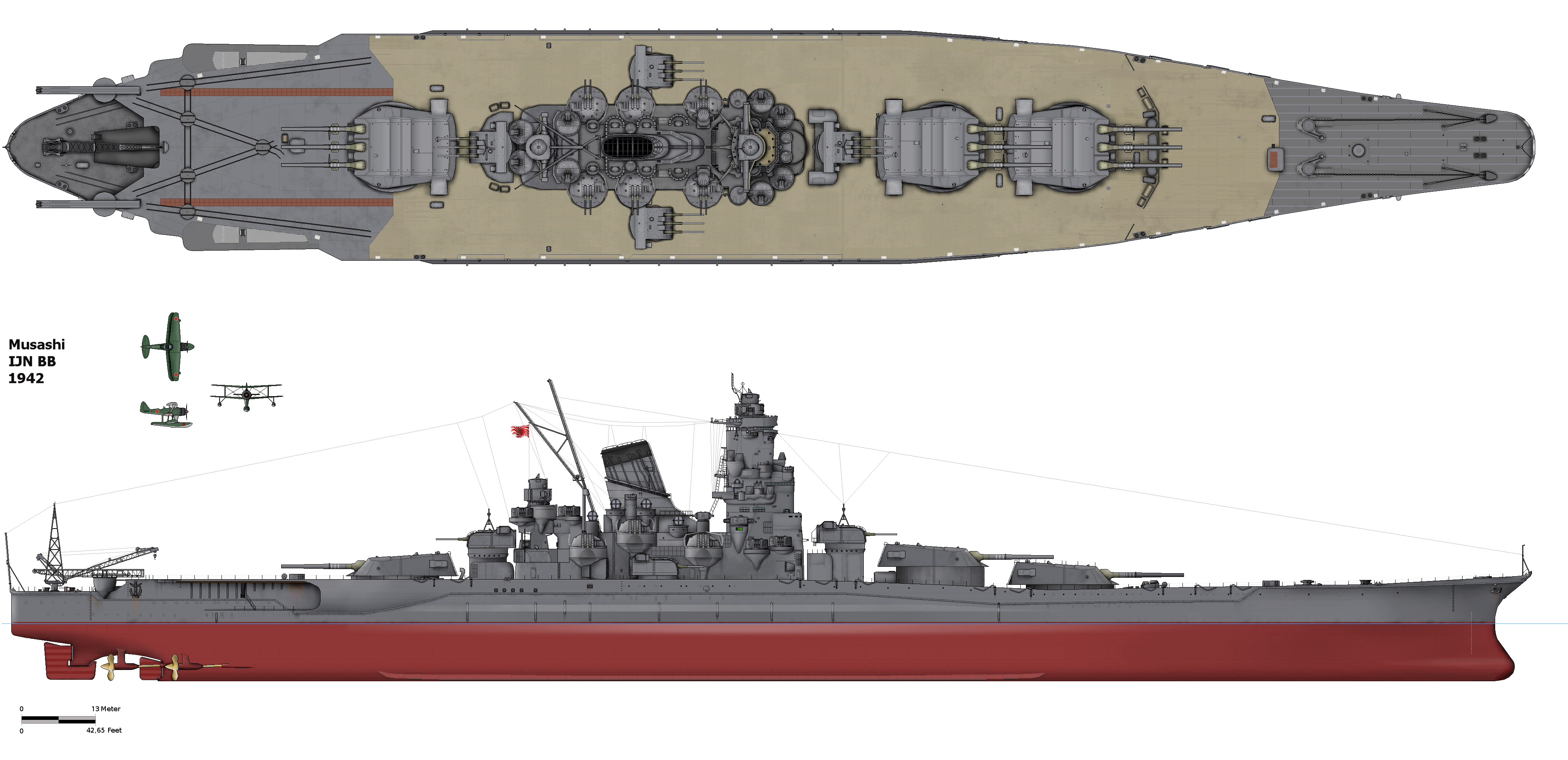 Musashi as build in 1942 without any modifications